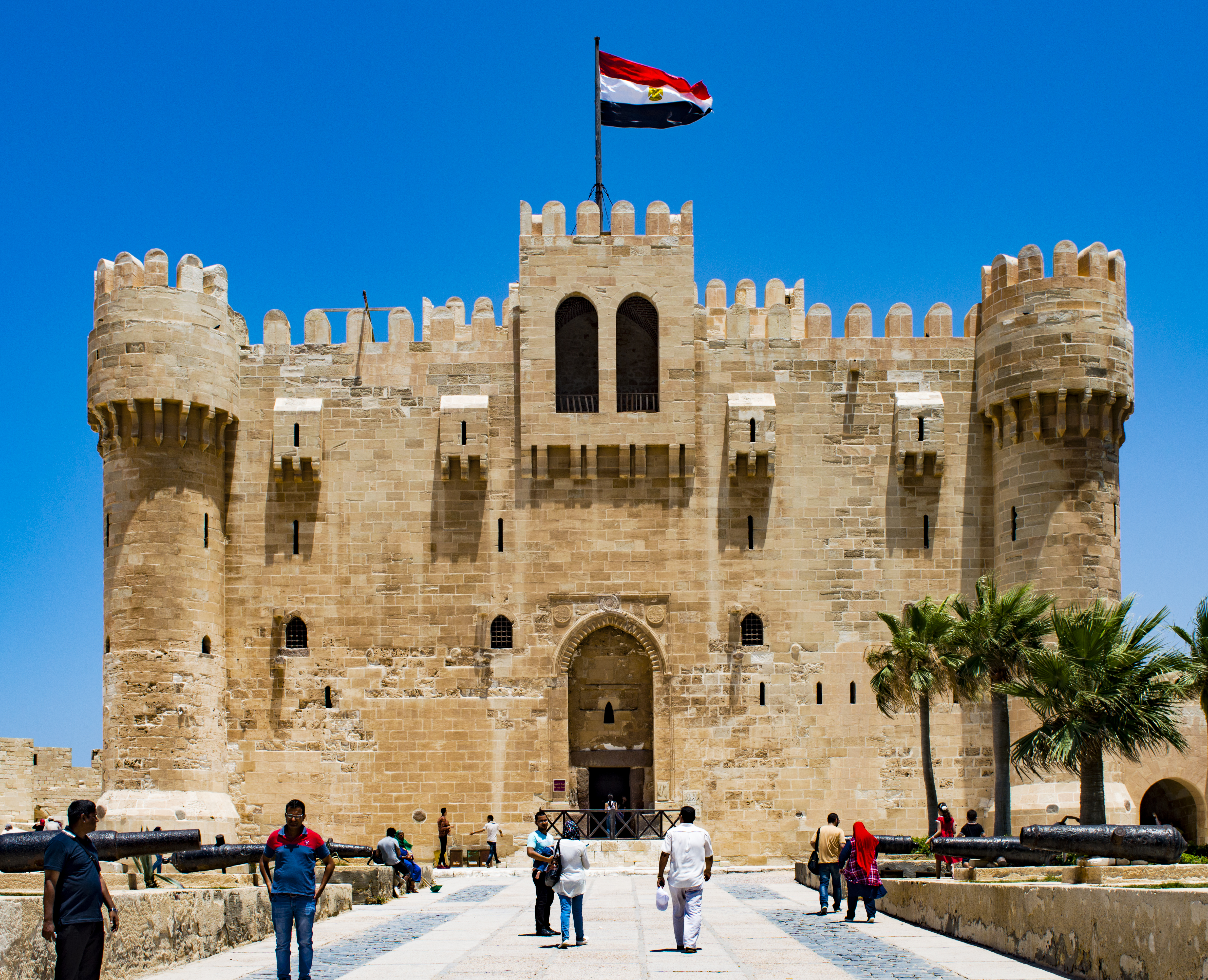 Qaitbey Citadel in Alexandria, Egypt